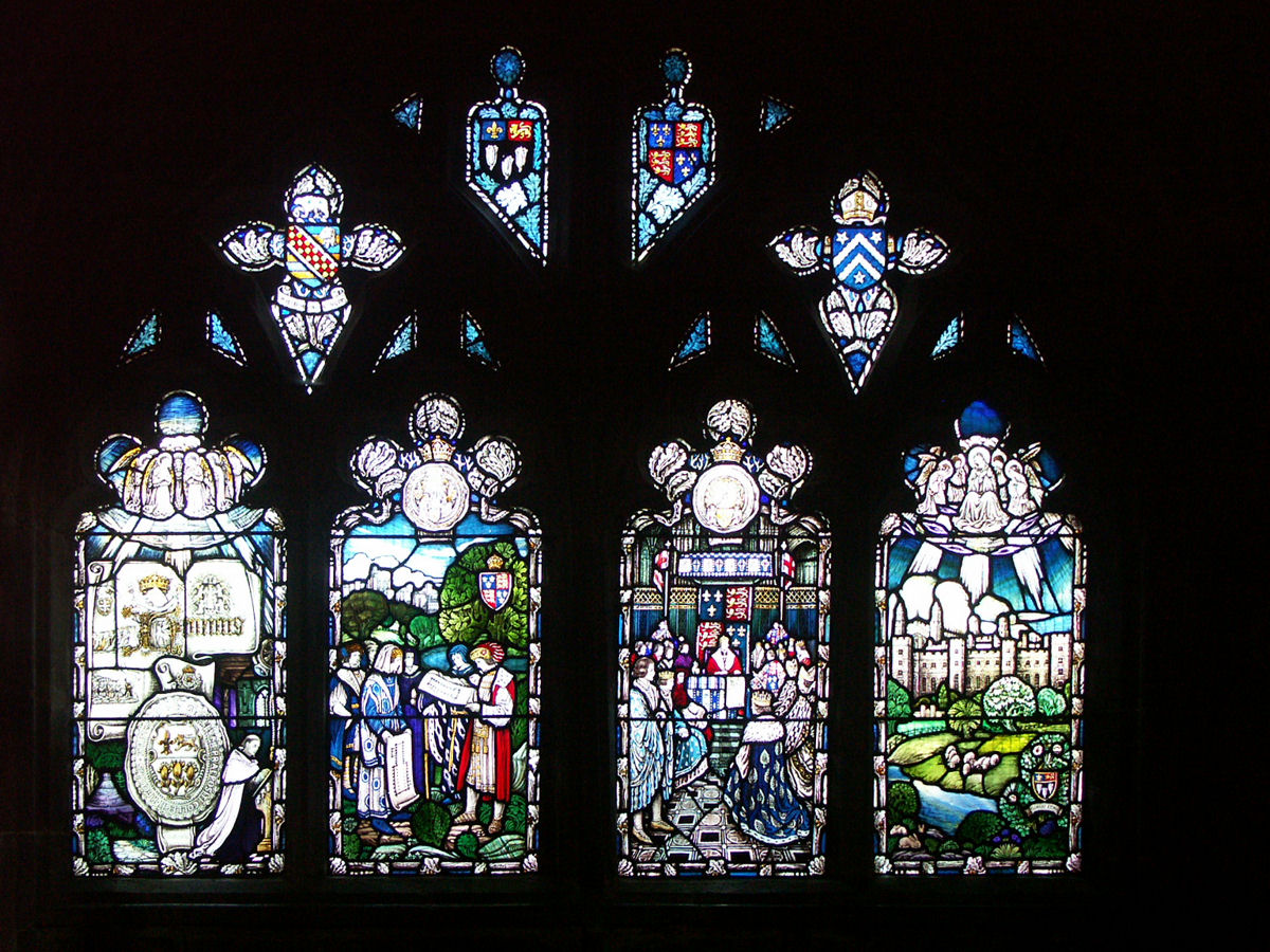 Hereford Cathedral, England. This window appears to show the founding of Eton College (by King Henry VI), on the banks of the River Thames in the shadow of Windsor Castle. Eton College Chapel is visible. The arms of Eton College are shown three times, together with the royal arms. Seal of Eton College at left, as in arms. Text per Julian P Guffogg[1]: "Glass in the Stanbury Chapel, designed by Archibald Davies, given in 1923. The windows depict scenes from the life of John Stanbury, confessor to King Henry VI and Bishop of Hereford in 1453. He assisted the King in his plans for Eton College and this is depicted in the windows. The left hand light shows Angels around a lamp, above a book symbolising the spirit of learning. The next light shows the Bishop planning the College with Henry VI and Windsor Castle in the background. The third light shows Henry VI granting a charter to the college. He is seated on a throne with his nobles in front of him. The final lights shows Eton College, with the River Thames and the Arms and motto of the college."